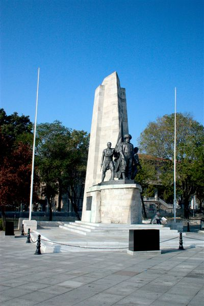 Author: David Bjorgen